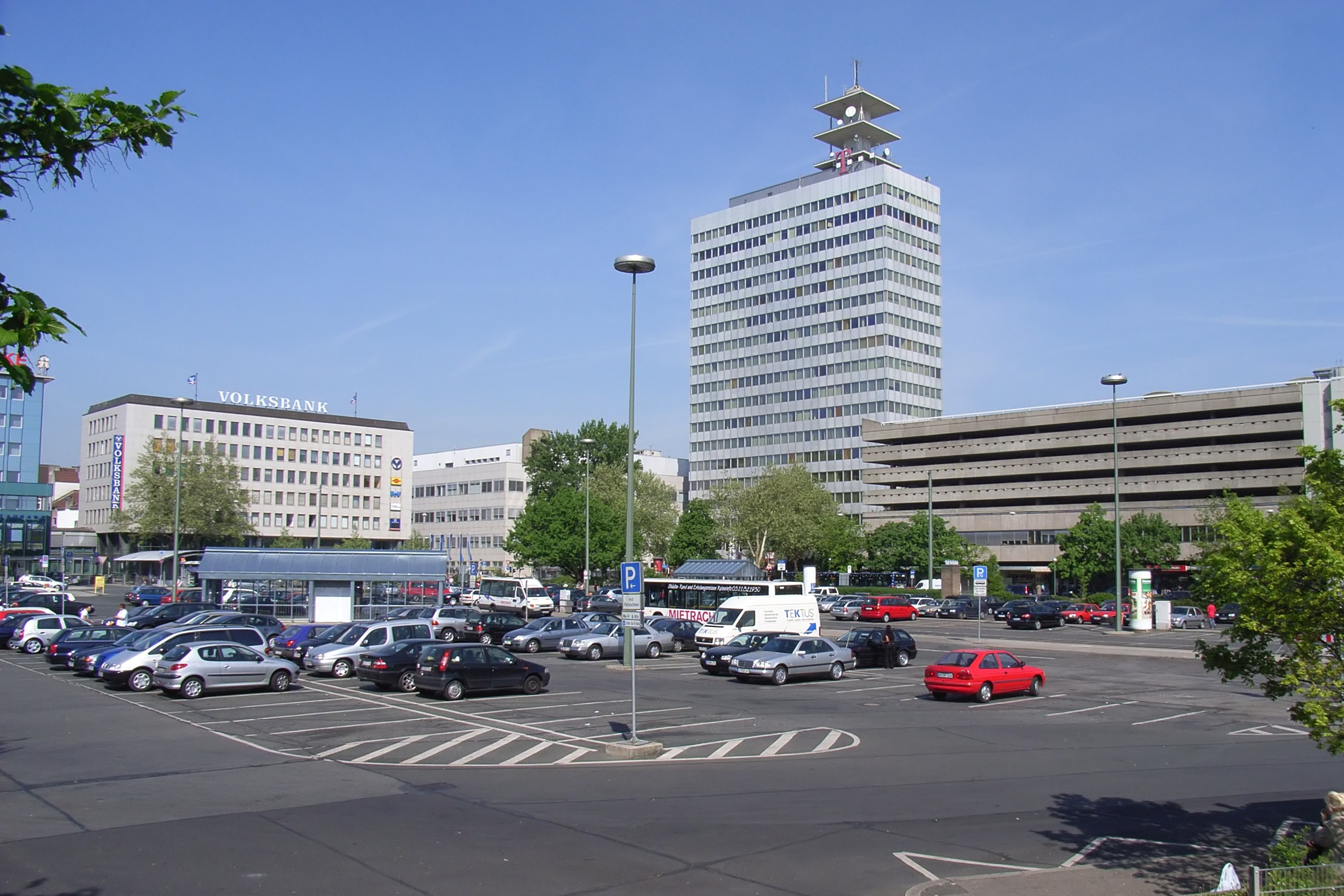 Bielefeld, Germany: Kesselbrink, a square in the city centre.